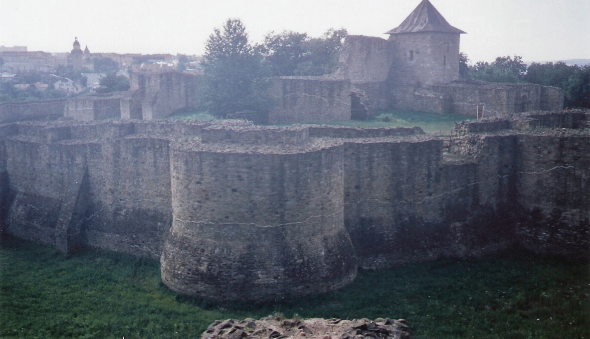 Seat Fortress of Suceava – the center part.